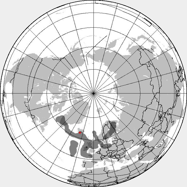 This map shows the Icelandic volcanic ash cloud that closed European air space as of 22 April 2010 at 18:00 UTC. Based on Updates: Editable XCF version: File:Eyjafjallajökull volcanic ash 22 April 2010.xcf Editable XCF: File:Eyjafjallajökull volcanic ash multilayer.xcf Previous map